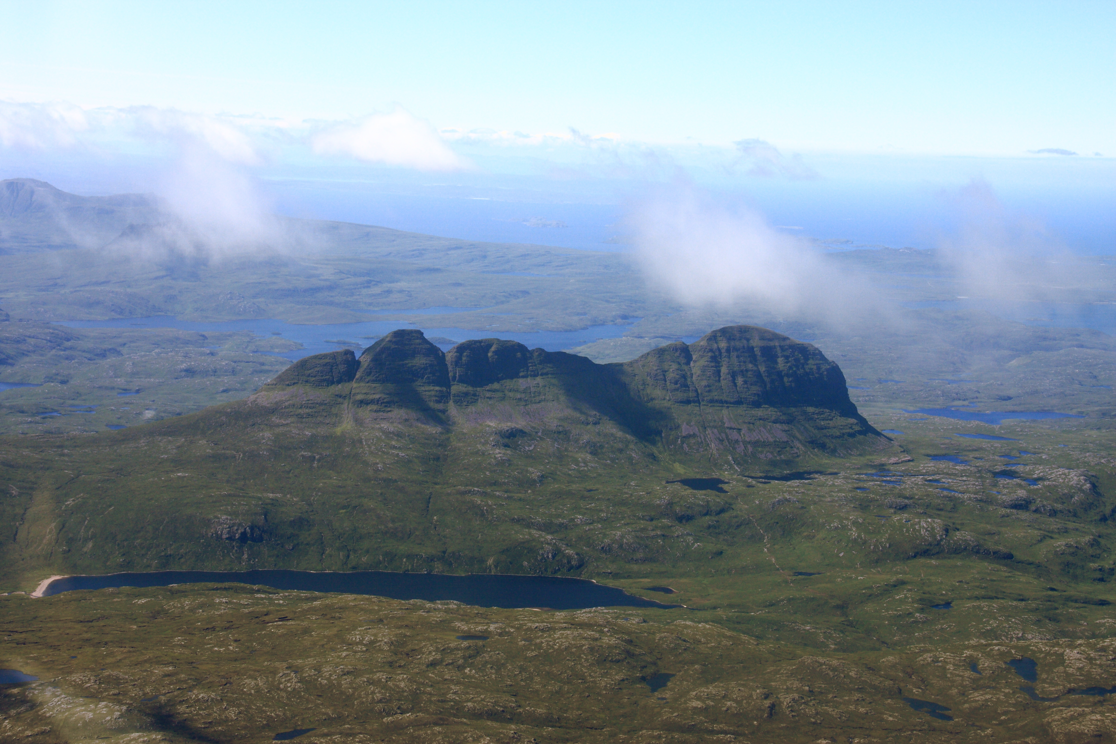 Aerial view of Suilven from the North West - taken from Cessna G-BRDO at around 4,500'